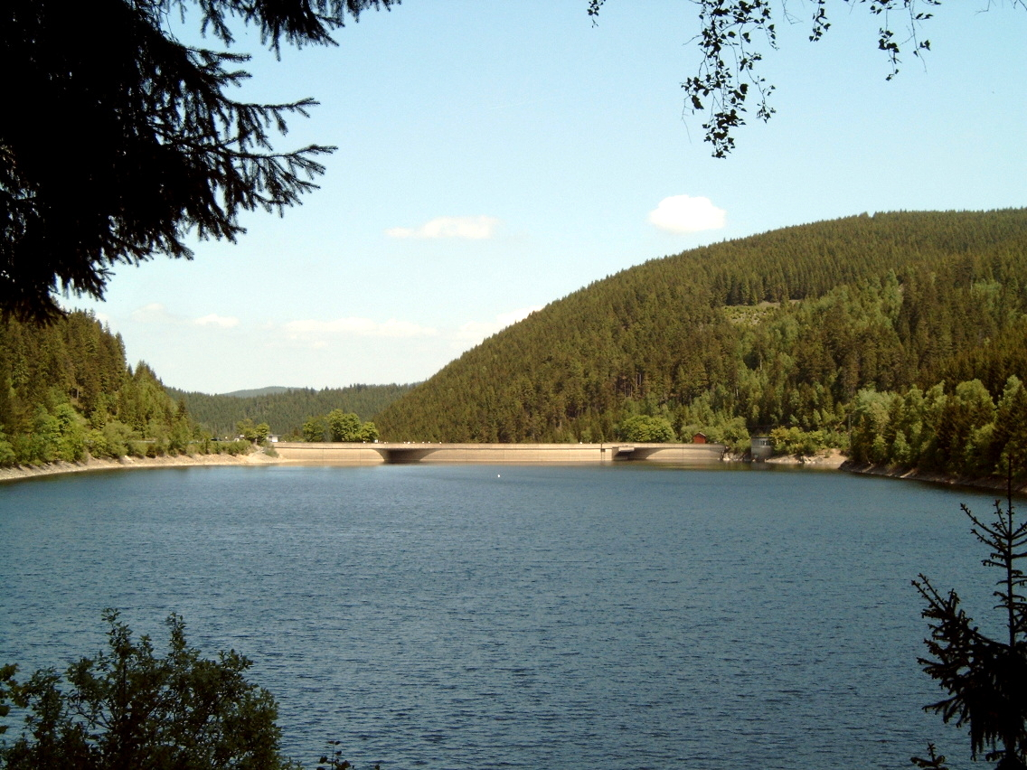 "Okertalsperre", dam, reservoir side